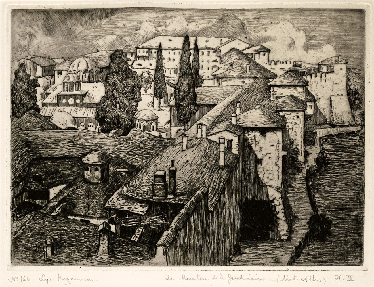 From the book: Le Mont Athos, préface de Charles Diehl. La Belle Édition, Paris 1922.